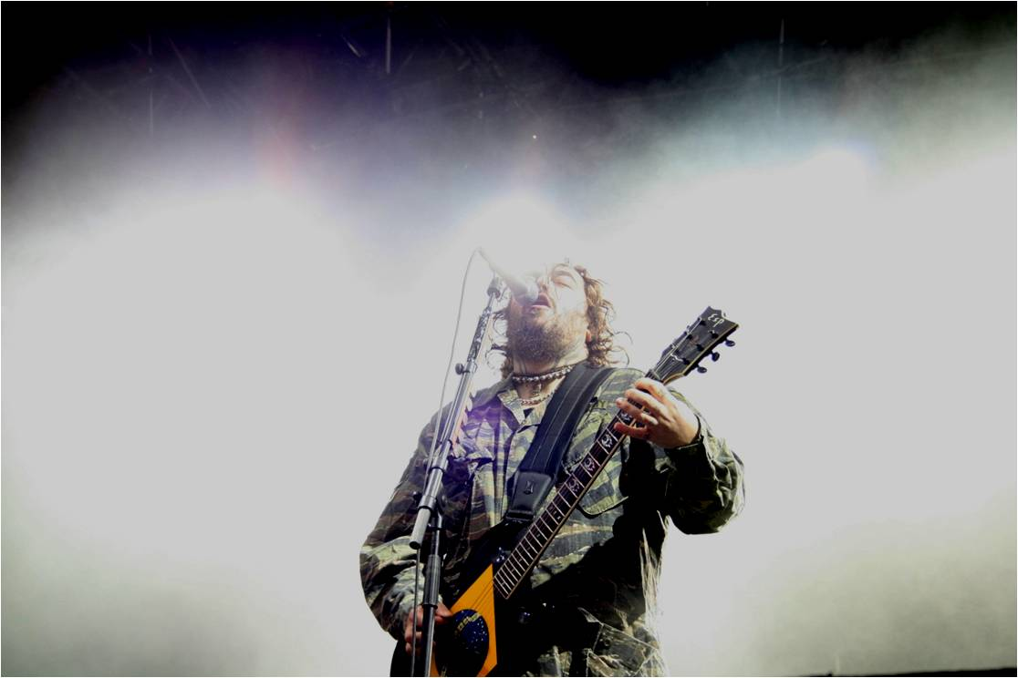 Cavalera Conspiracy at Norway Rock Festival 2010